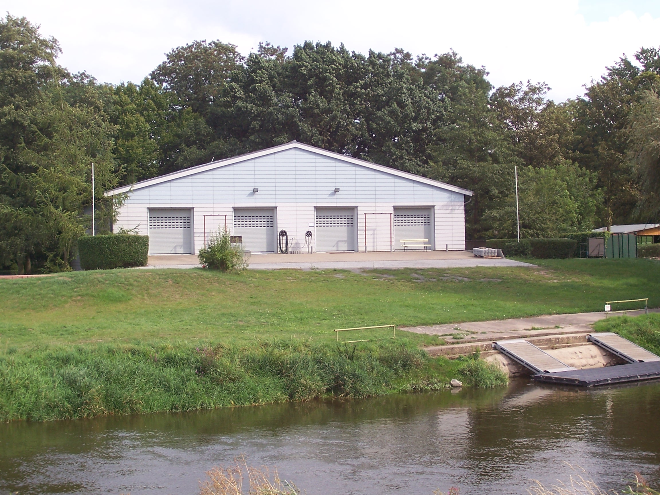 boathouse in Eilenburg